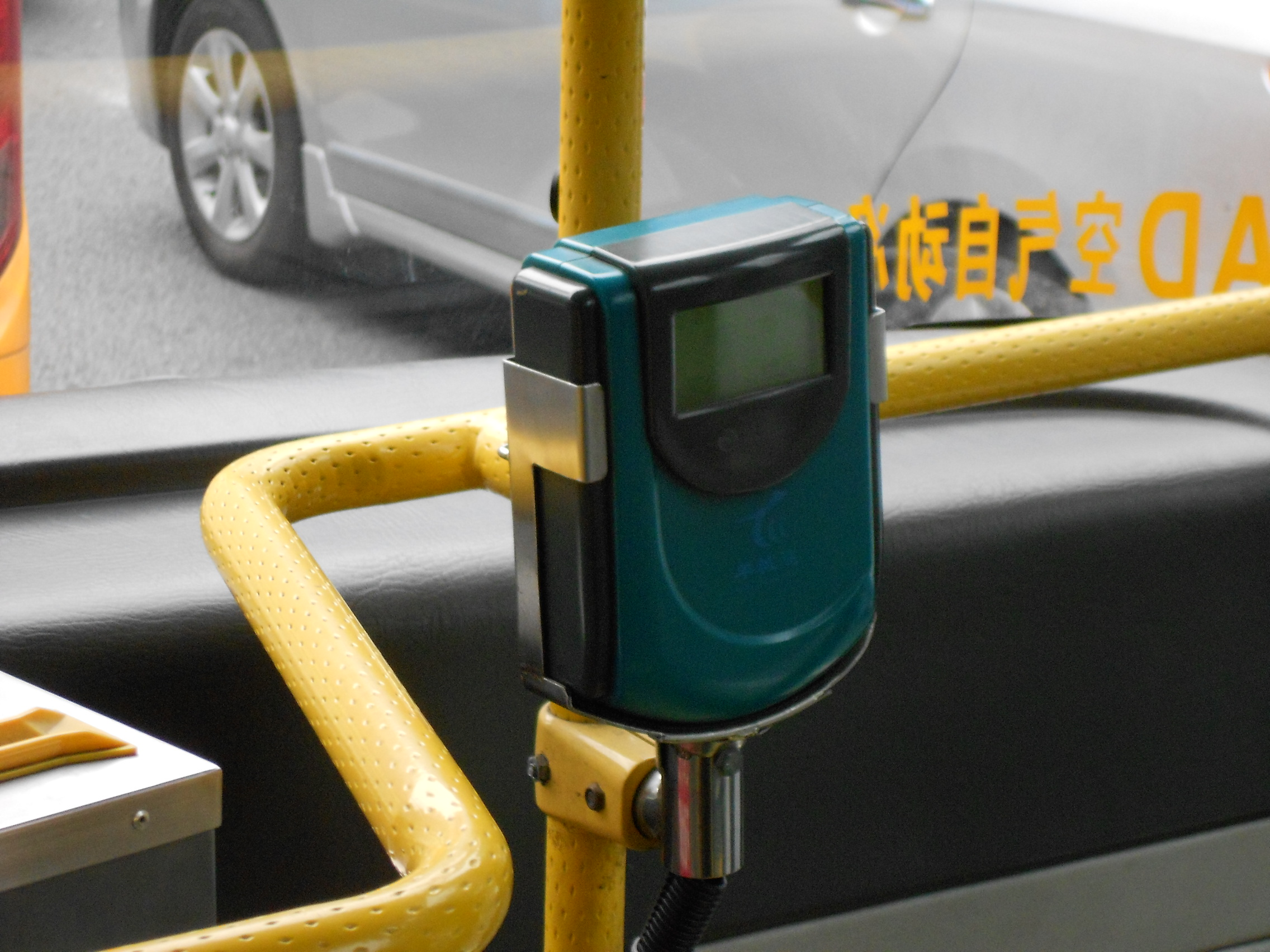 Yang Cheng Tong (Ram City Pass) Cards Reader (2nd generation) in Guangzhou Buses.